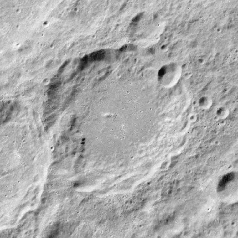 Oblique view of Hertz, on the far side of the moon. North is in upper right.